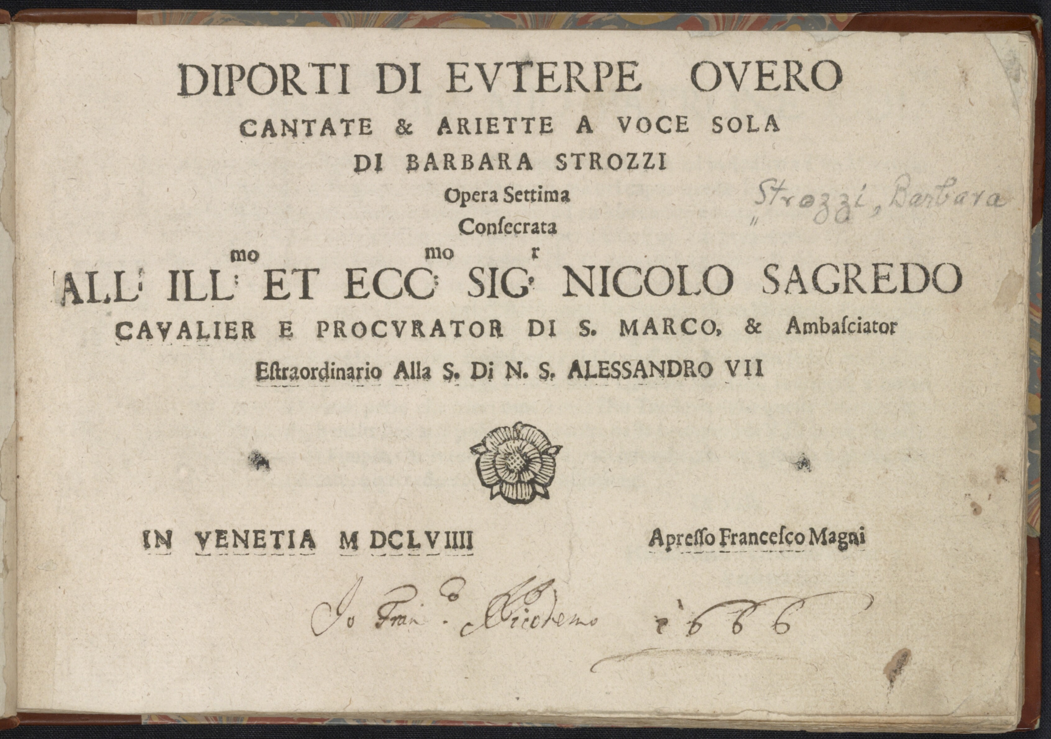 Title page of a music publication, that came out in 1659